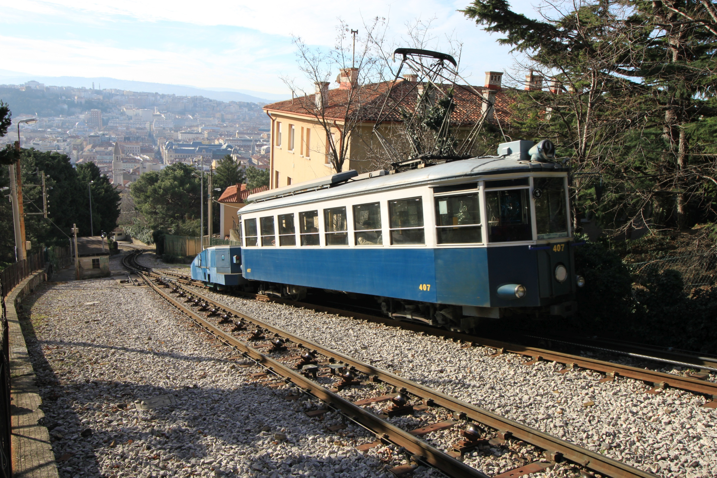 Trieste-Opicina tramway; carriage no. 407 on the funicular section near Sant Anastasio